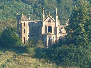 Cambusnethan Priory: Gothic Building with pseudo ecclesiastical features. A fire and vandalism later have taken a toll on this building. Designed by James Gillespie and completed roughly in 1825. Sits above the River Clyde, enjoying enchanting views of the Clyde Valley. It was built for the Lockharts of Castlehill, whose crest was etched into every balustrade as well as its main hall. This crest still survives at the Lockhart Estate's bridge along the Clyde Valley (the A72) scenic route to Lanark, and consists of a lock, casket and a heart, as one of the Lockhart ancestors was a bearer of Robert the Bruce's heart to the Holy Lands, and had carried The Bruce's heart strung around his neck inside a casket. The family's original name was "Loccard", but after the Bruce's heart was brought back and buried in Melrose Abbey, their name was changed to, "Lockhart". One of the few remaining Gothic styled mansions still standing in Scotland.